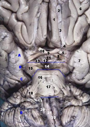 Human brainstem anterior view Gyrus rectus Bulbus olfactorii Tractus olfactorii Trigonum olfactorium Substantia perforata anterior Gyri orbitales Gyrus parahippocampalis Tractus opticus Chiasma opticum Nervus opticus Infundibulum hypophysialis Corpora mammillaria Substantia perforata posterior Fossa interpeduncularis Pedunculus cerebri Pons Sulcus basilaris Pedunculus cerebelli Sulcus bulbopontinus Oliva Pyramis medullae oblongatae Medulla oblongata, Fissura mediana anterior A: Thalamus, B: Mesencephalon, C: Pons, D: Medulla oblongata The Medulla, Pons & Midbrain are delineated here on the anterior surface of the brain. In the Midbrain the massive right and left Cerebral Peduncles are seen. The two peduncles are separated by the Interpeduncular Fossa. Posteromedial central arteries enter the brain through the holes in the Posterior Perforated Substance located in the floor of the fossa. Cranial nerve III also enters the midbrain through this fossa. Another important fact to note is that the pituitary gland was removed before this photo was taken. The infundibulum connects between the thalamus and pituitary. (font: arial black, size: 10)